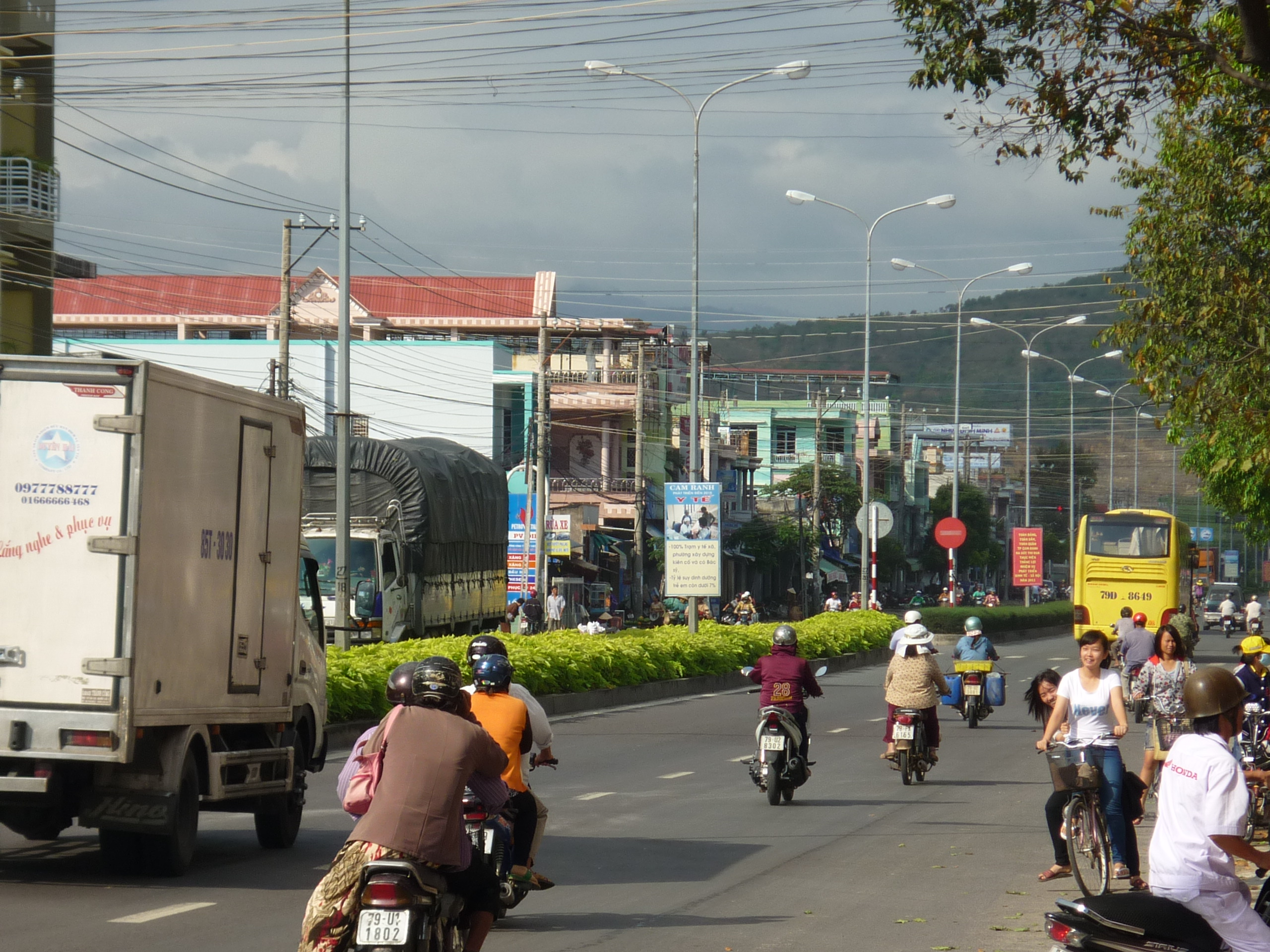 Cam Ranh